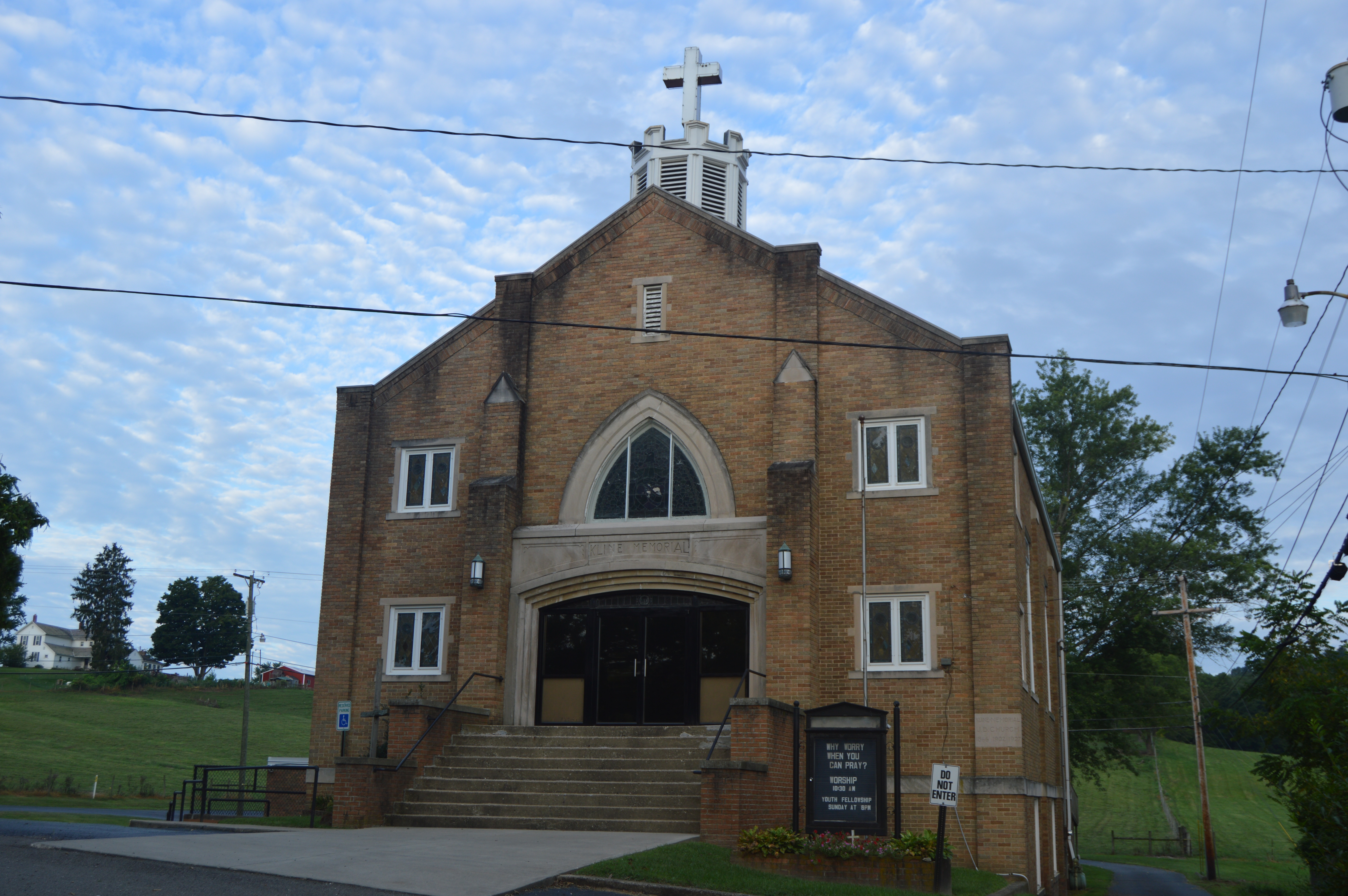 Front and northern side of the Kline Memorial United Methodist Church, located at 28996 Enterprise Iles Road at Enterprise in Falls Township, Hocking County, Ohio, United States. It was built in 1927.